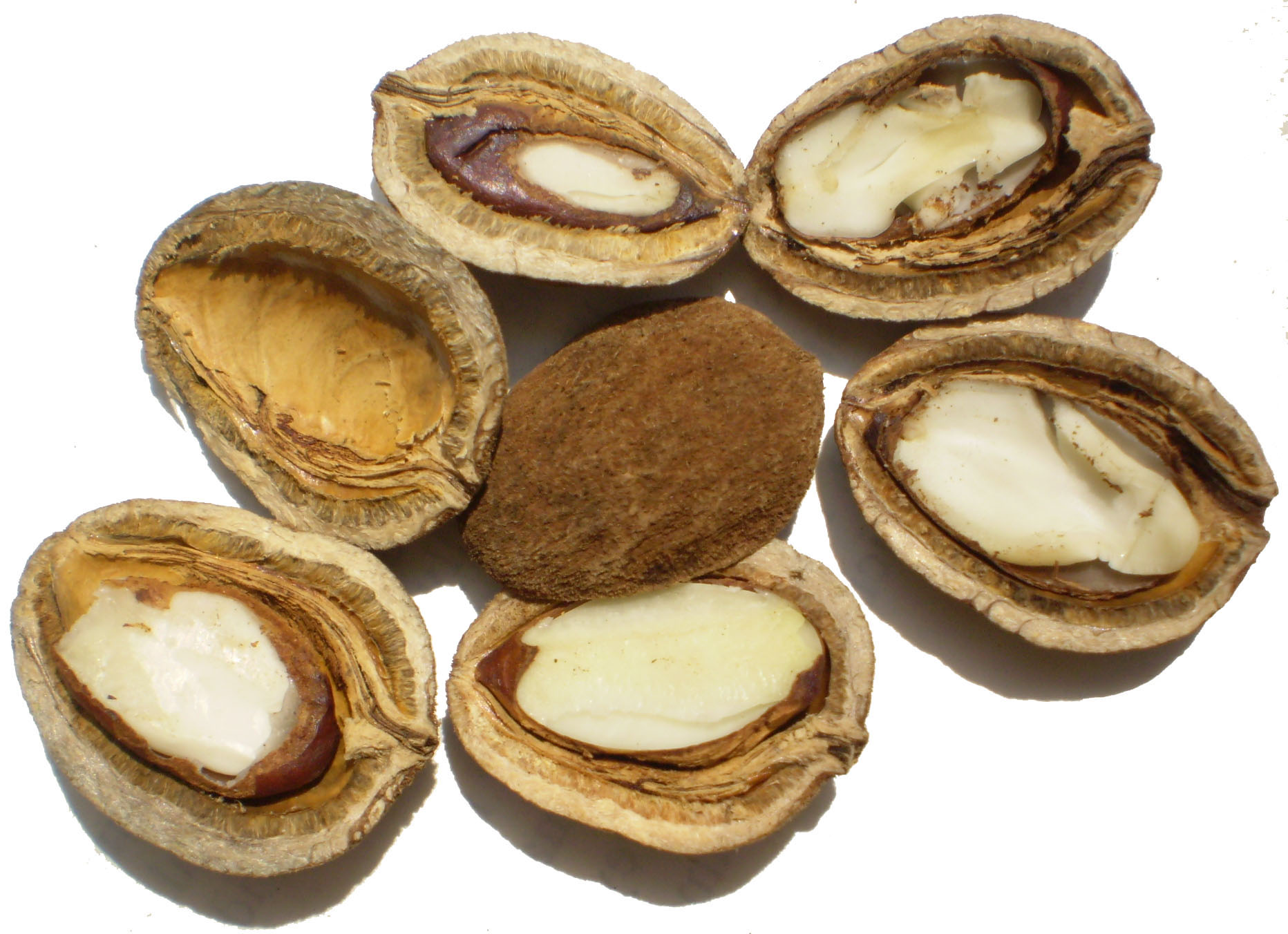 Inside of Irvingia malayana seeds